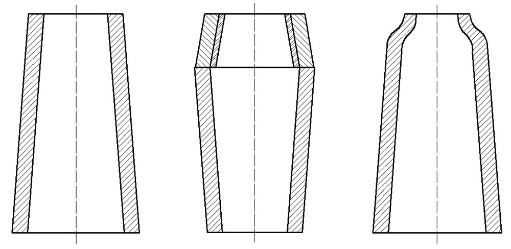 Ingot mould types for steel casting